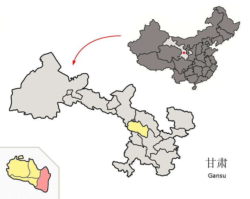 Location of Yuzhong County (pink) within Lanzhou Prefecture (yellow) and Gansu province of China Map drawn in september 2007 using various sources, mainly : Gansu province administrative regions GIS data: 1:1M, County level, 1990 Gansu Counties map from